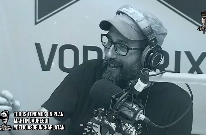 Martin Jauregui en Vorterix